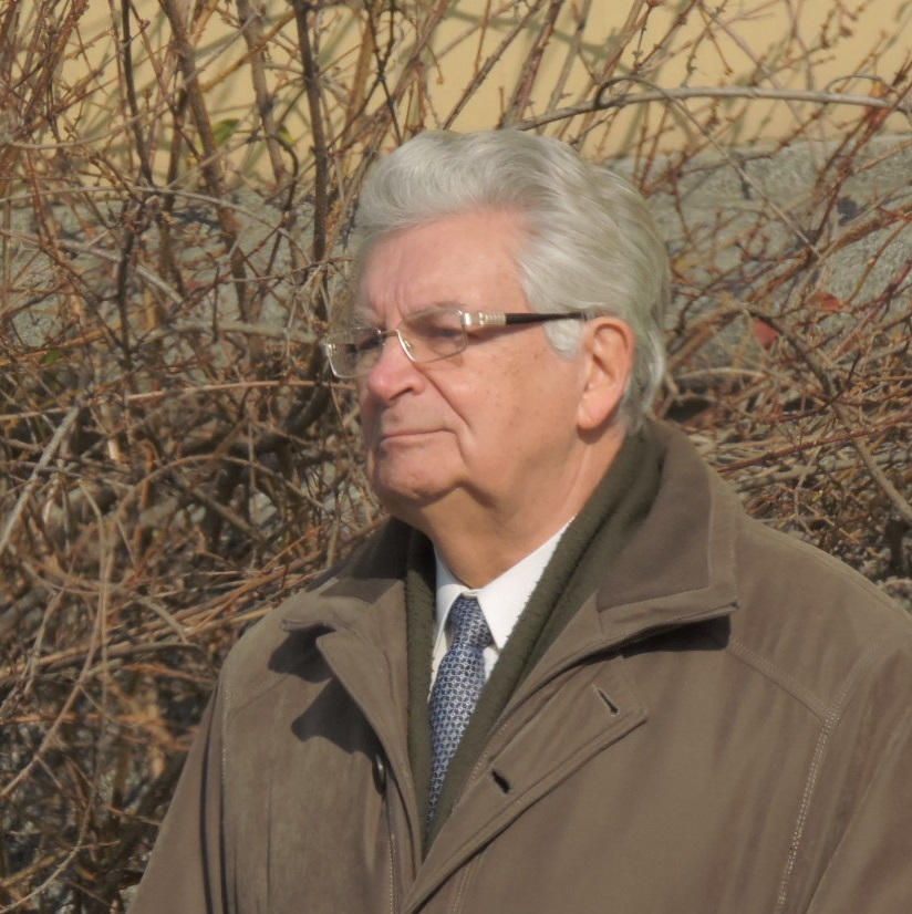 Acad. Ivan Yuhnovski, Bulgarian Academy of Sciences